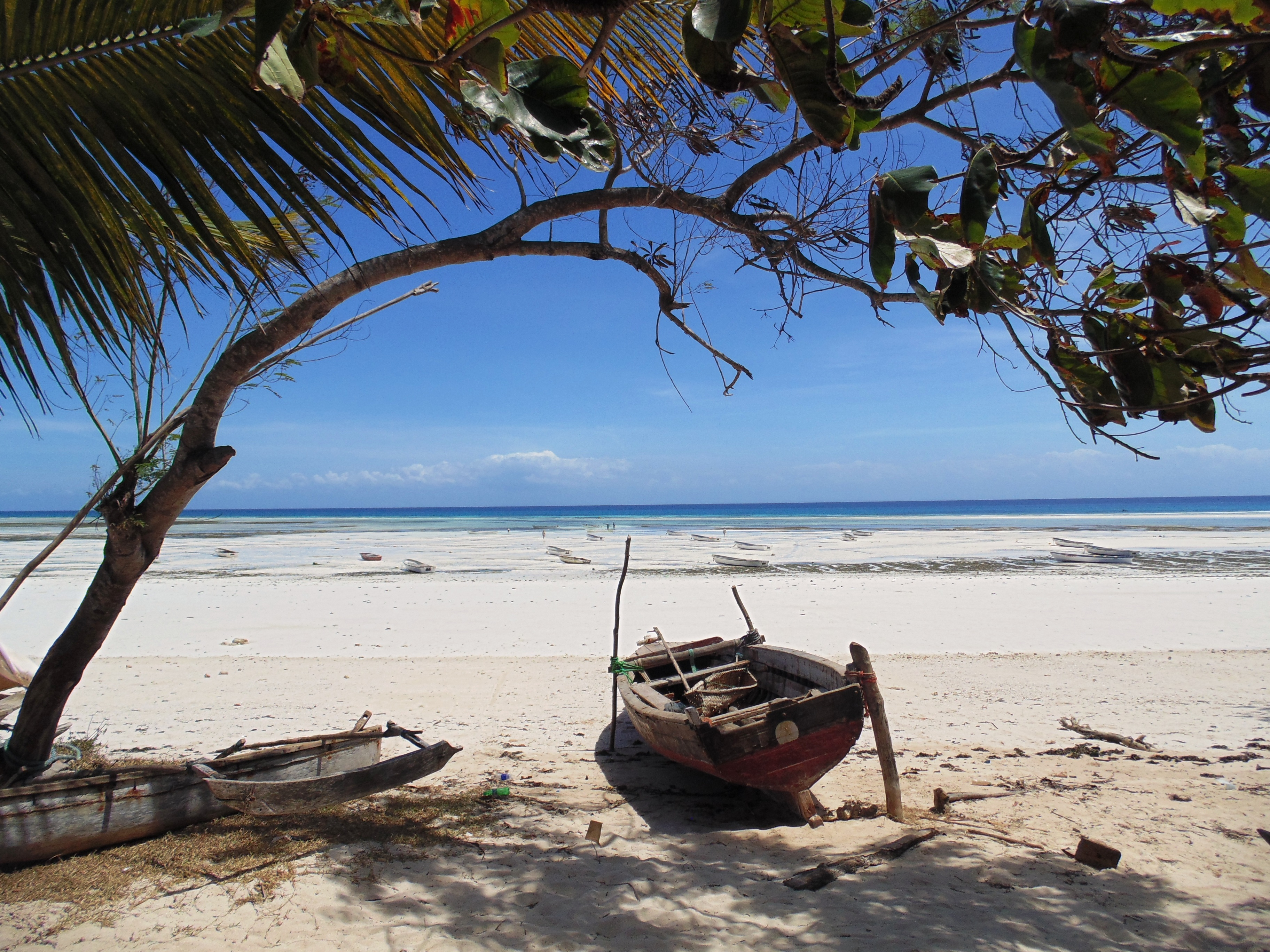 Kizimkazi